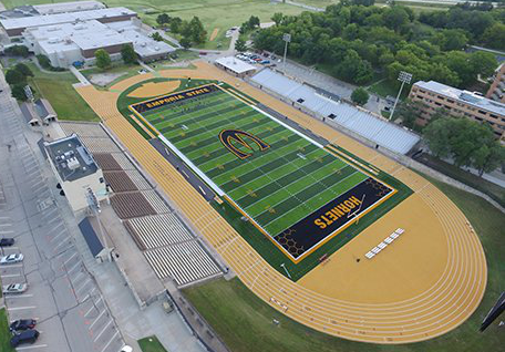 Francis G. Welch Stadium after renovations were completed in 2016.